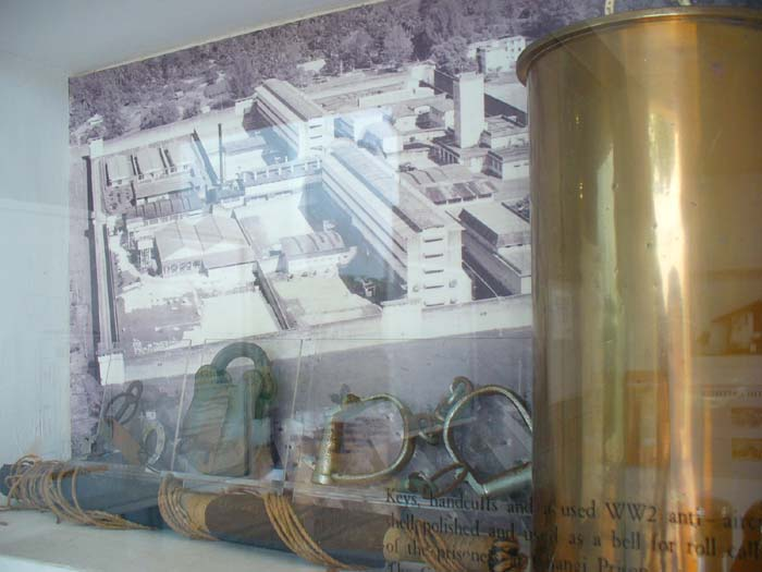 The display of POW's artifacts at the Changi Chapel and Museum, Singapore. In the background shows a picture of the Changi Prison during WWII.